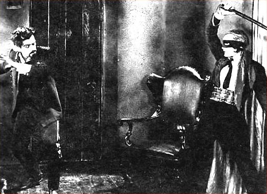 Film Booking Offices publicity photo for the film Lady Robin Hood (1925), featuring star Evelyn Brent (in mask) and Boris Karloff